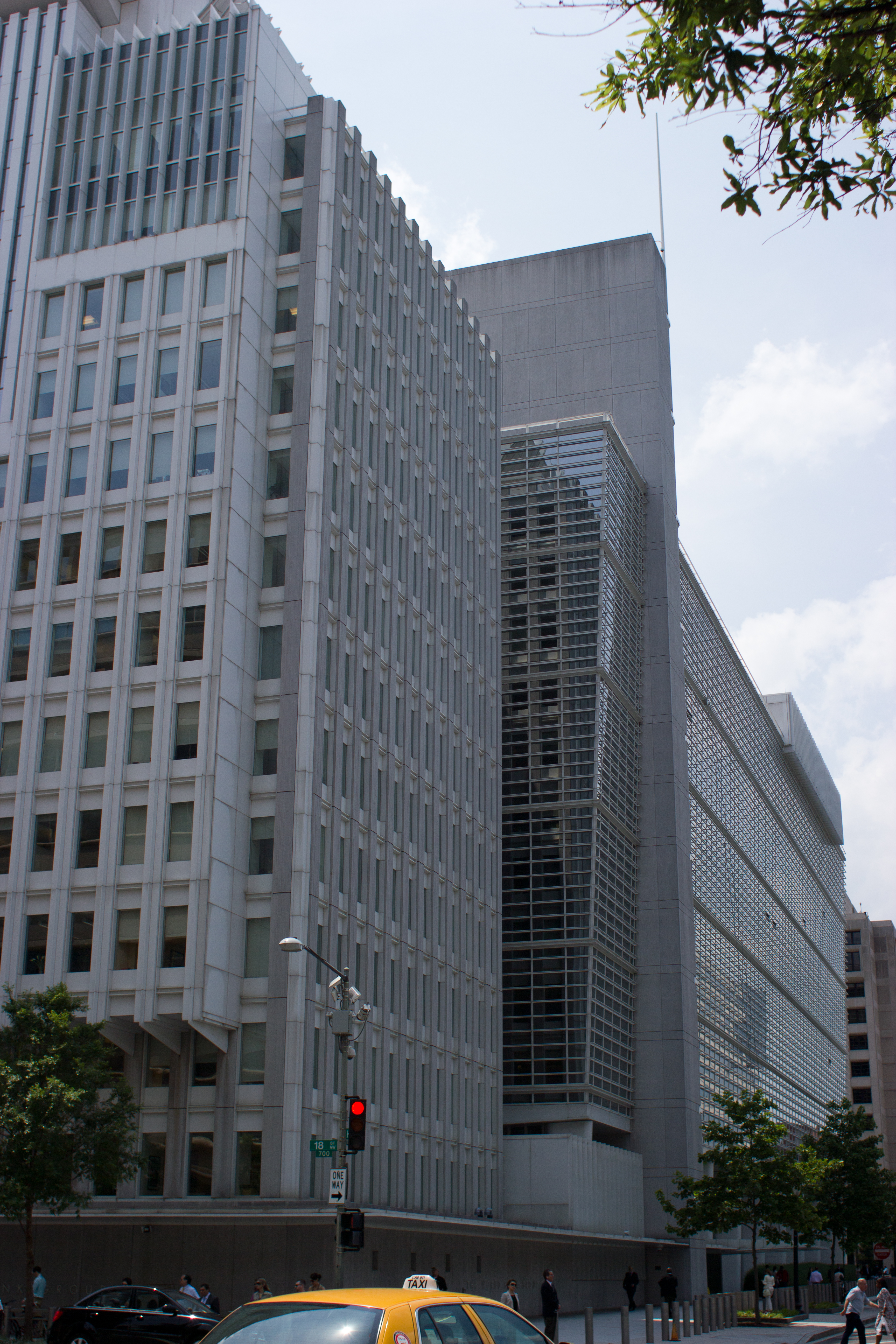 The World Bank Group Building